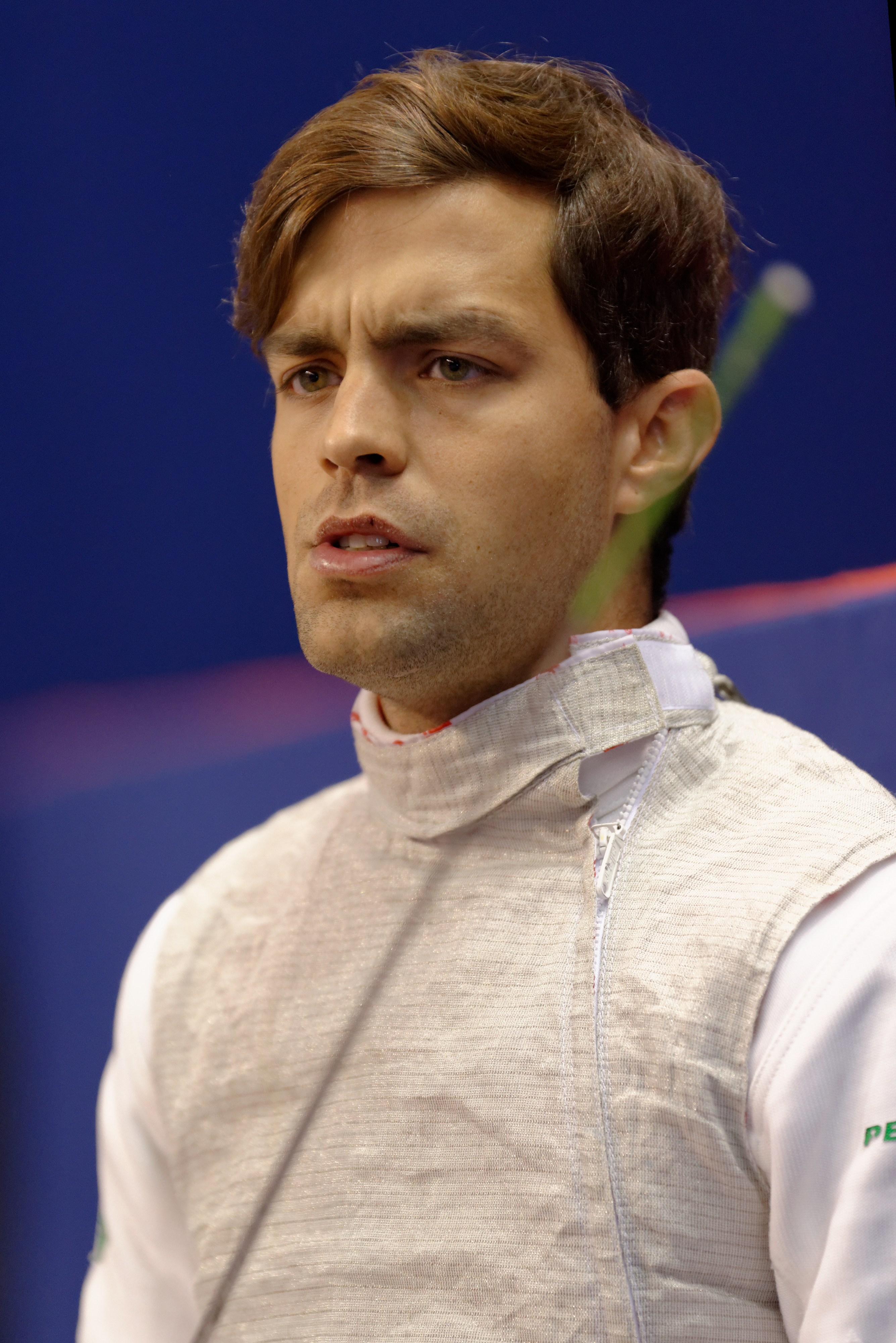 Brazil's Fernando Scavasin at the team event of the 2015 Challenge International de Paris, a men's foil World Cup competition.